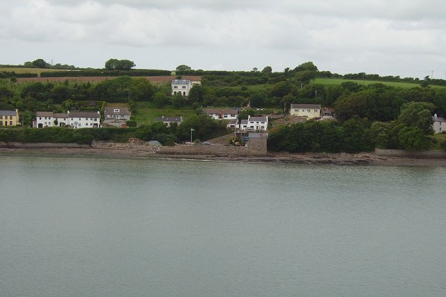 Llanstadwell. Village strung out along the north shore, opposite Pembroke Dock